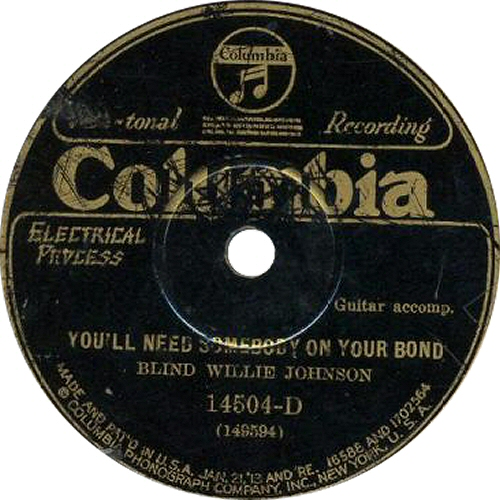 record of You'll Need Somebody On Your Bond by Blind Willie Johnson